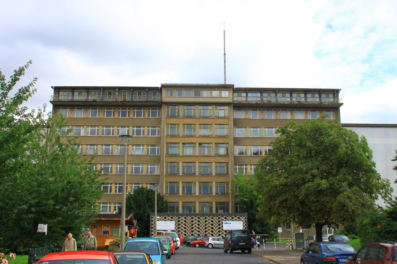 STASI HQ